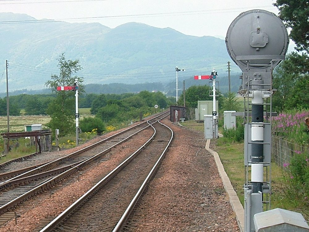 Semaphore stop signals at Kingussie